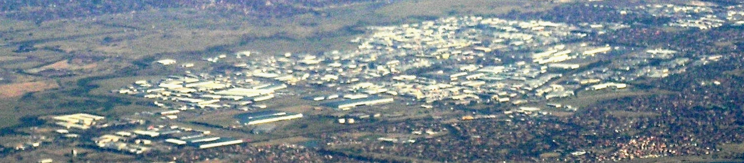 Aerial view of Somerton Victoria from north west, an industrial suburb Merri Creek in the back of the picture is the limit of SOmerton. Hume Highway runs from bottom left to top right of this picture